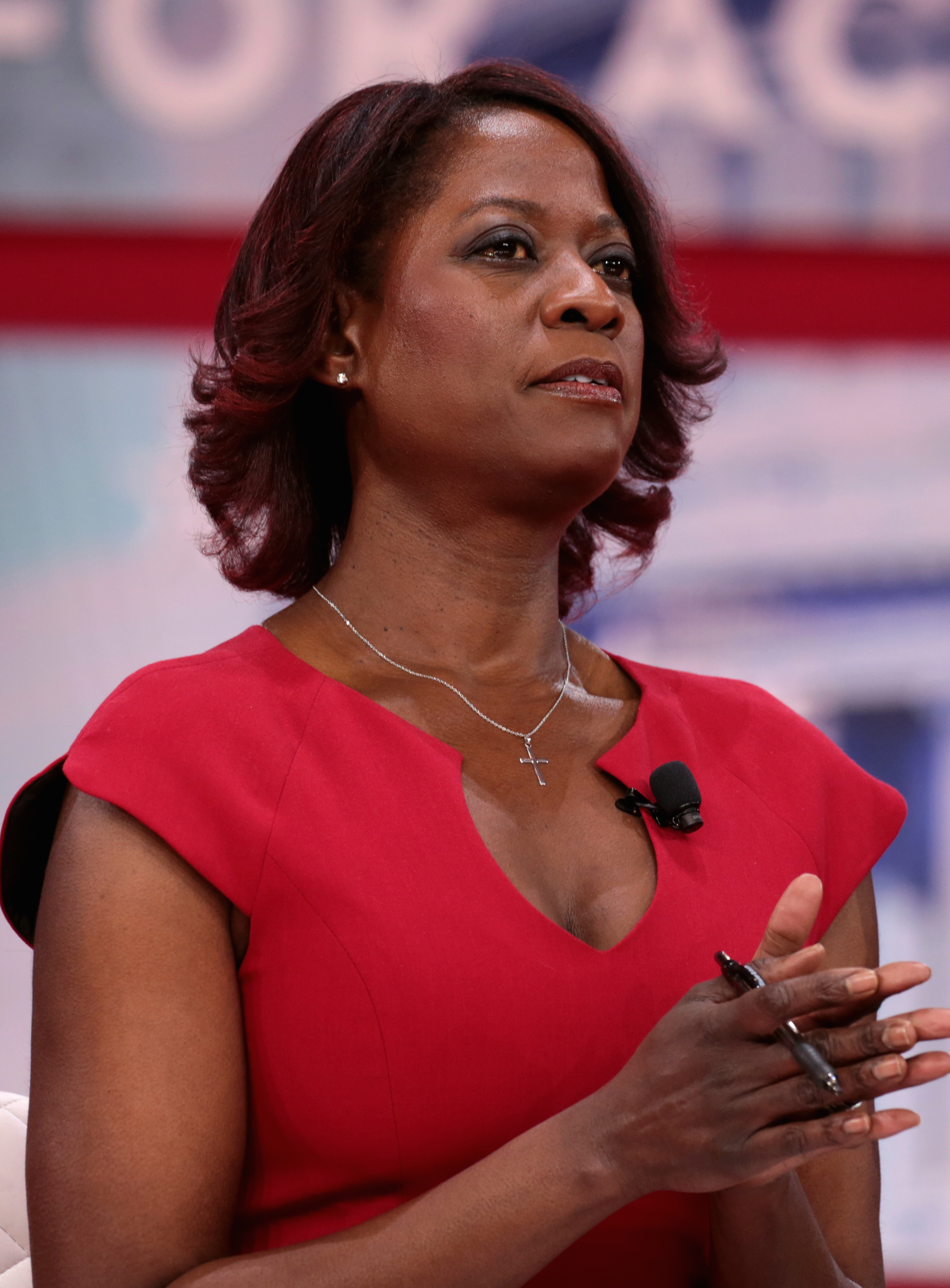 Deneen Borelli speaking at the 2018 Conservative Political Action Conference (CPAC) in National Harbor, Maryland.